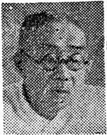 South Korean Vicepresident Lee See-young (1951.01)